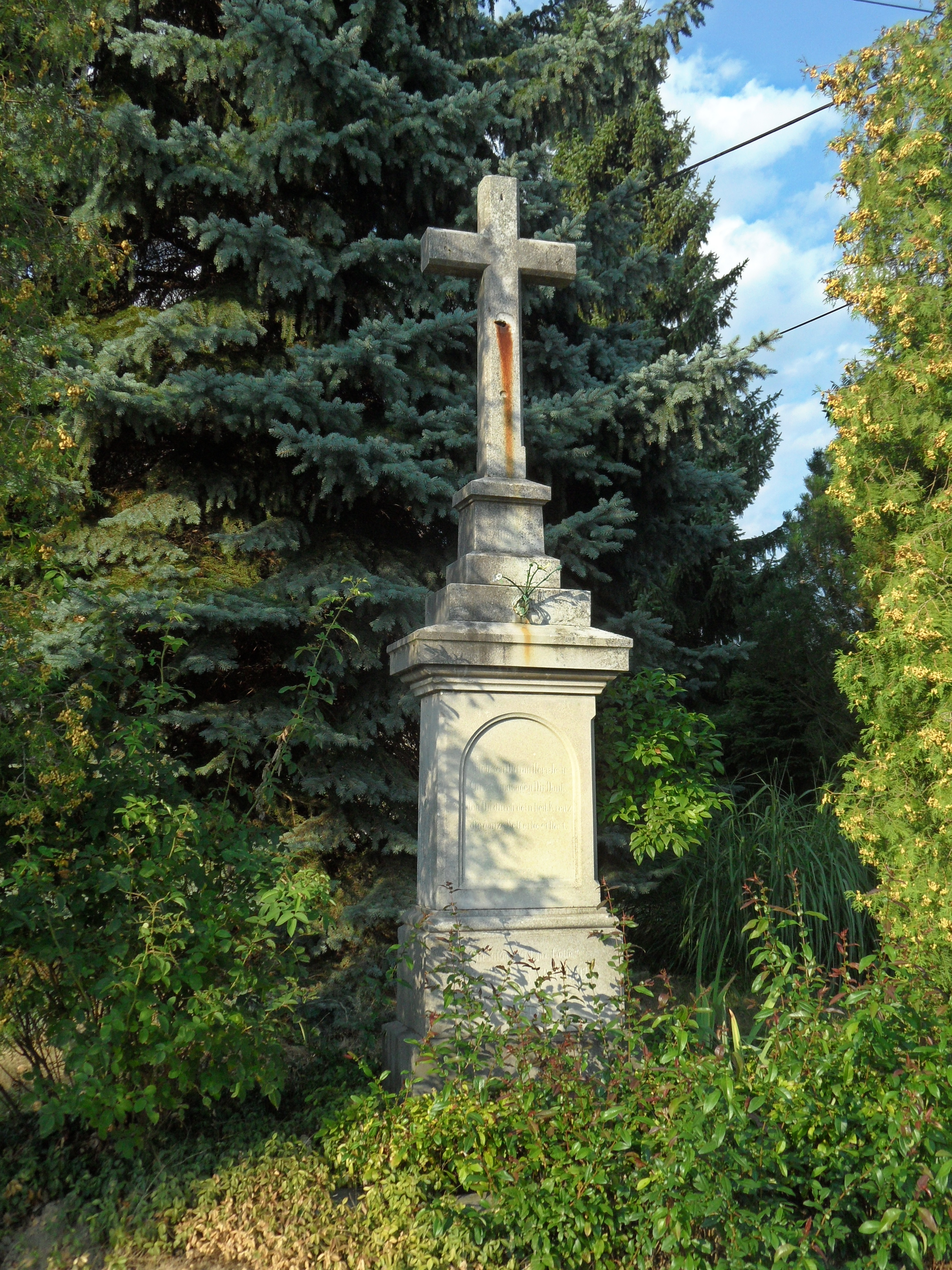 Terezín (Petrov nad Desnou): Stone Crucifix. Šumperk District, the Czech Republic